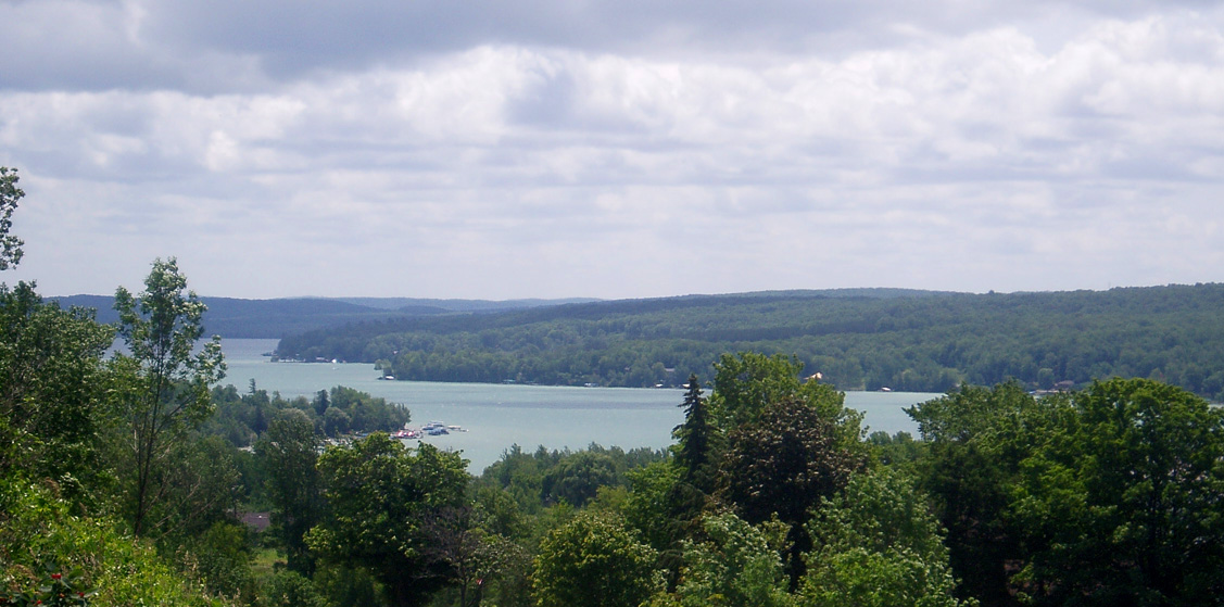 Photo of North Arm of Walloon Lake from US 131, taken by H.G. Judd, July 2006.